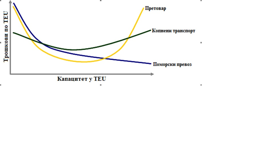 Зависност трошкова од капацитета